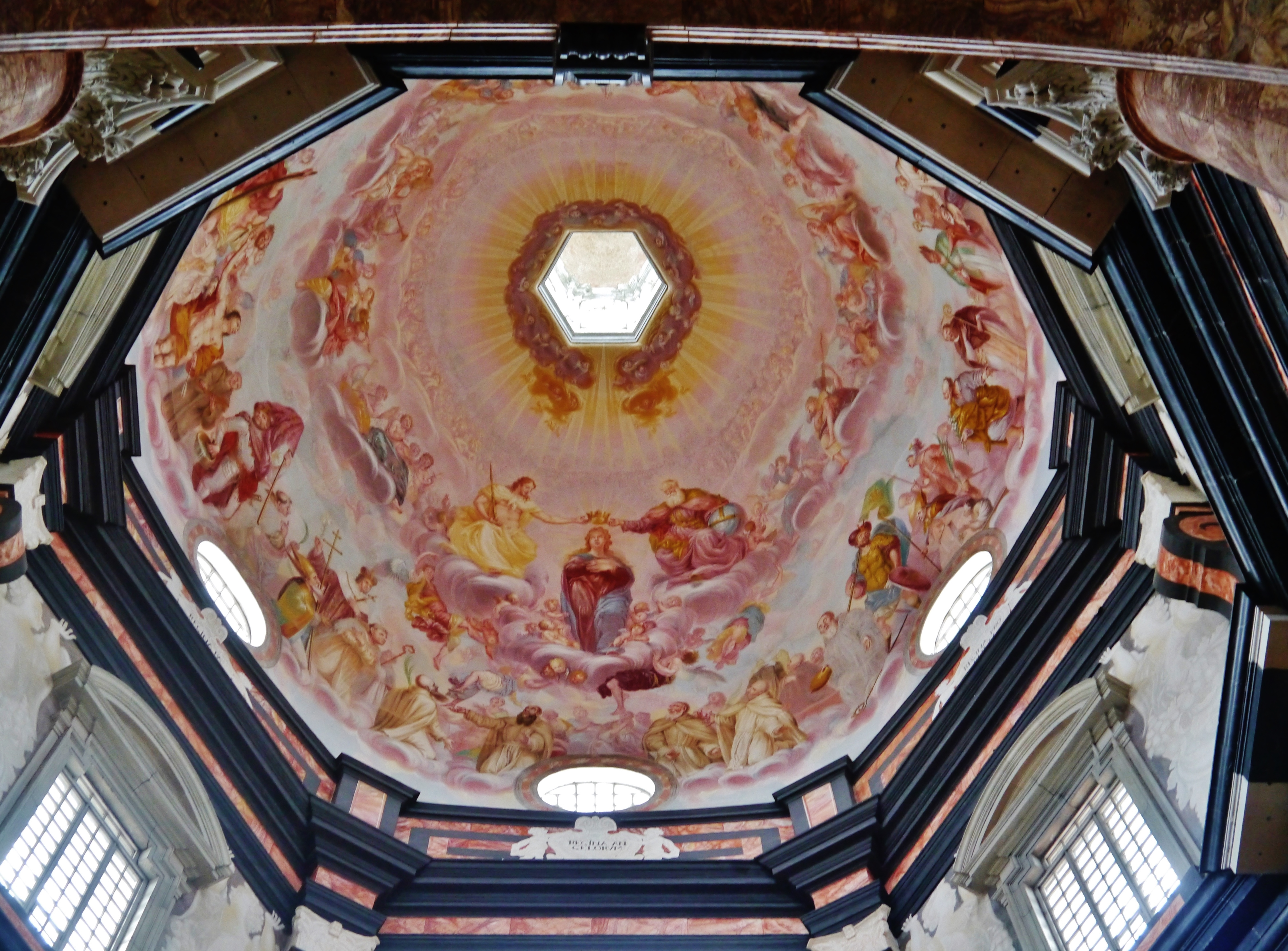 inside IX Fort, Kaunas, Lithuania